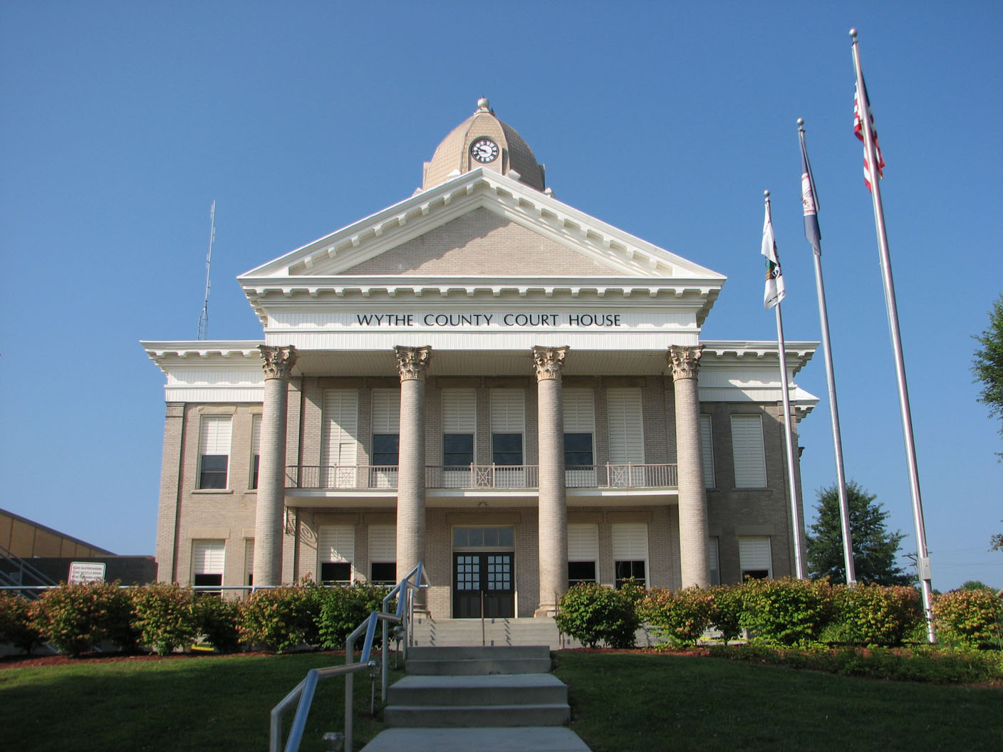 A photograph of the Wythe County courthouse in Wytheville, Wythe County, Virginia. Taken by RebelAt on August 23rd, 2006.